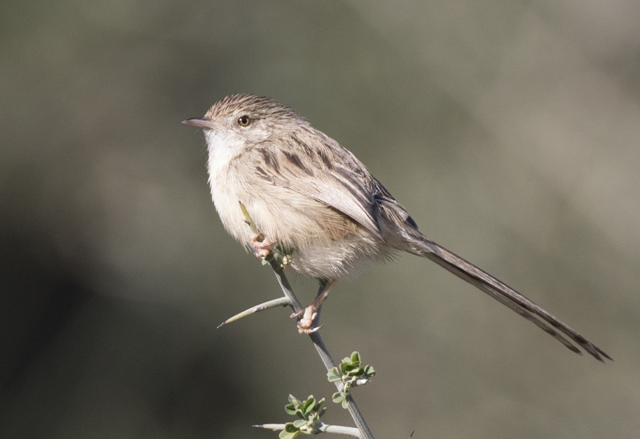 Graceful prinia (Prinia gracilis). Eskibaraj Dam Lake, Adana - Turkey.